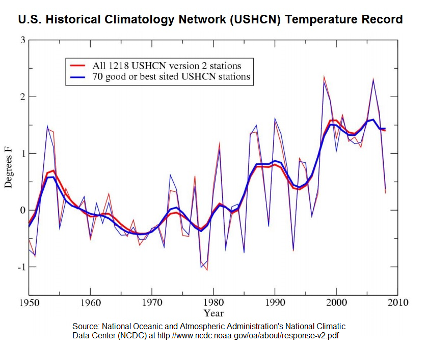 This graph is an edited version of the public domain image here and shows the increase in temperature in the U.S. according to the 1218 stations in NOAA’s Historical Climatology Network (USHCN), with yearly data going from 1950 to 2009. It incorporates information from the article- Watts, Anthony, 2009: "Is the U.S. Surface Temperature Record Reliable?" The Heartland Institute, Chicago. 29 pp.